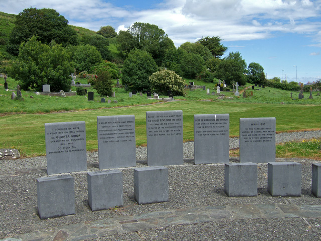 Site of Famine Burial Pits at Abbeystrowery The worst disaster to befall Ireland was undoubtedly the Great Famine that occurred during 1845 - 1850 as a result of successive potato crop failures. The town of Skibbereen suffered particularly badly, and it has been estimated that as many as 10,000 victims were buried at this site.